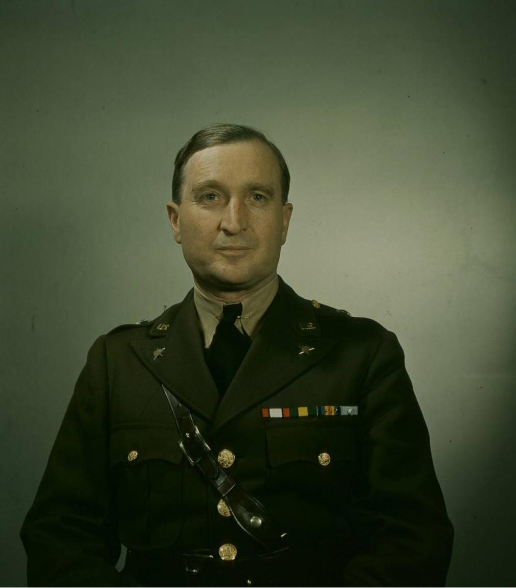 Harry James Malony (August 24, 1889 - March 23, 1971) was an decorated American Major general, who commanded the 94th Infantry Division during the World War II.